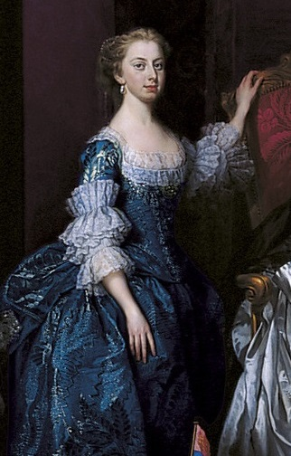 From File:The Family of Frederick, Prince of Wales.jpg